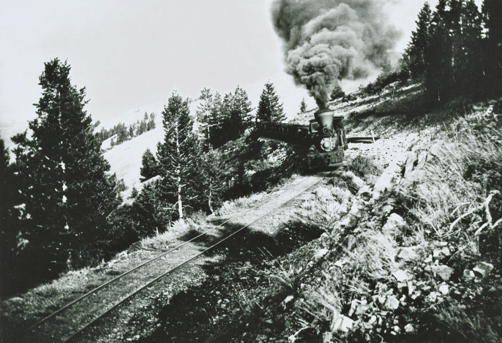 A historic image of a Shay locomotive climbing the tracks on Mine Hill in the Pioneer Mountains up to the now deserted mining town of White Knob.